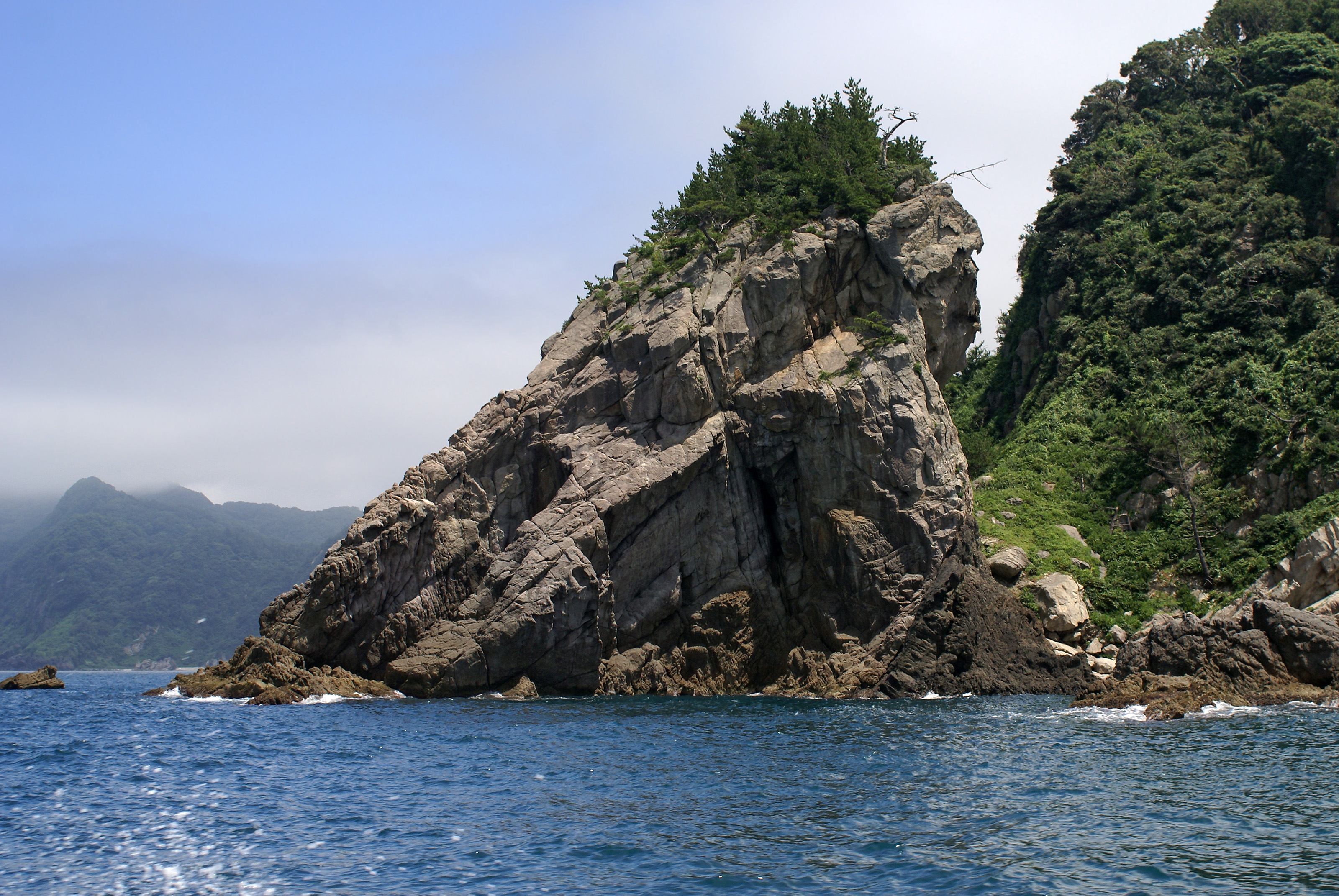 Tajima mihonoura in Shinonsen, Hyogo prefecture, Japan